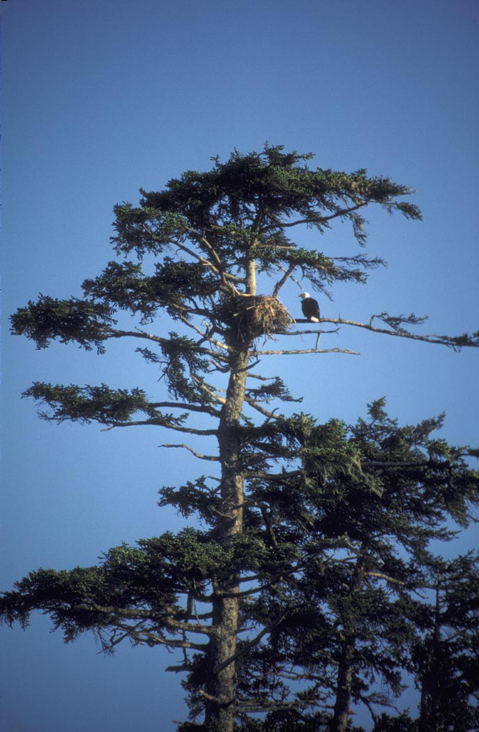 Bald eagle (Haliaeetus leucocephalus) and its nest on a tree; north of Coffman Cove, northeast side of Prince of Wales Island, southeast Alaska. Taken from the Digital Library System from the FWS.